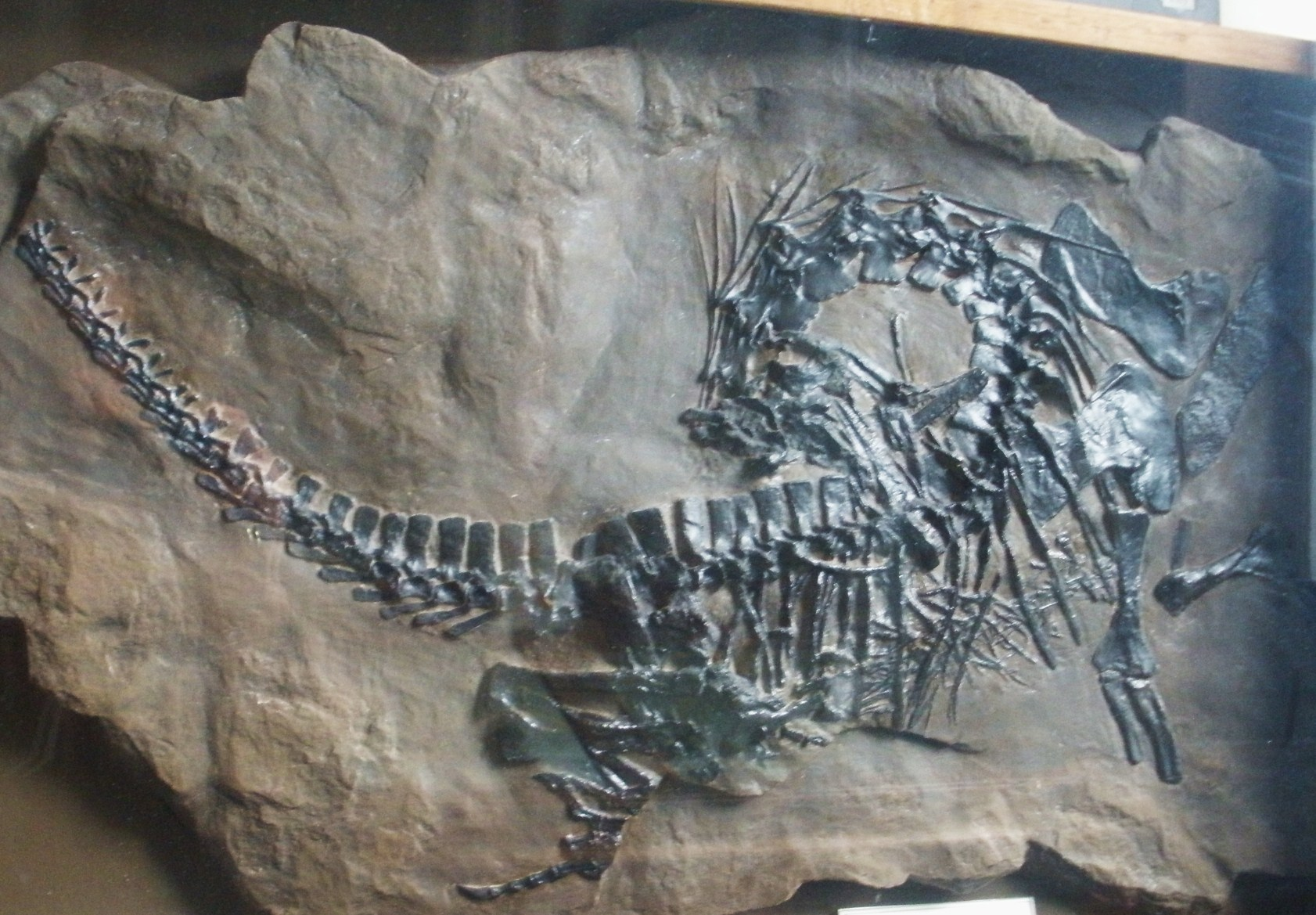 Fossil of Protorosaurus, an extinct reptile - Took the photo at Teylers Museum.